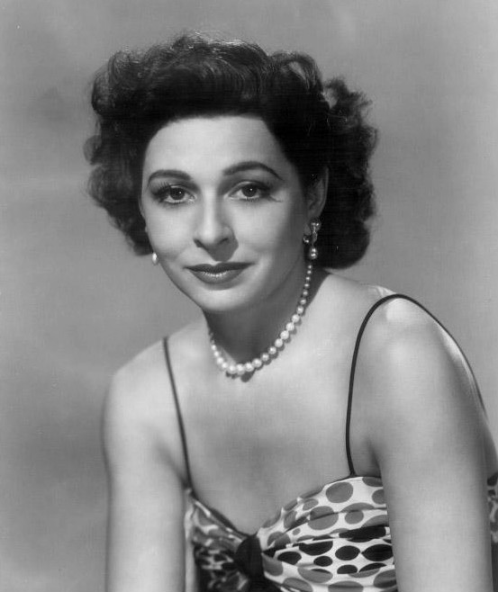 Photo of actress Pamela Mason in 1952. Before she marrie James Mason, her husband was Roy Kellino and some of her credits are as Pamela Kellino.